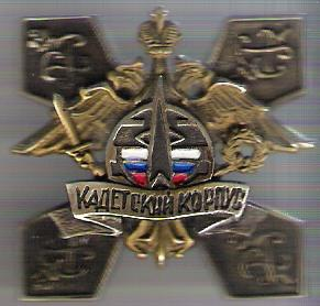 Cross VKPVKK